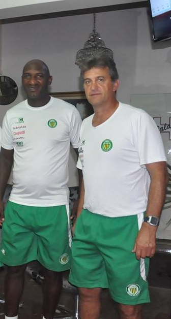 From Image:Leocir e comissão.jpg.